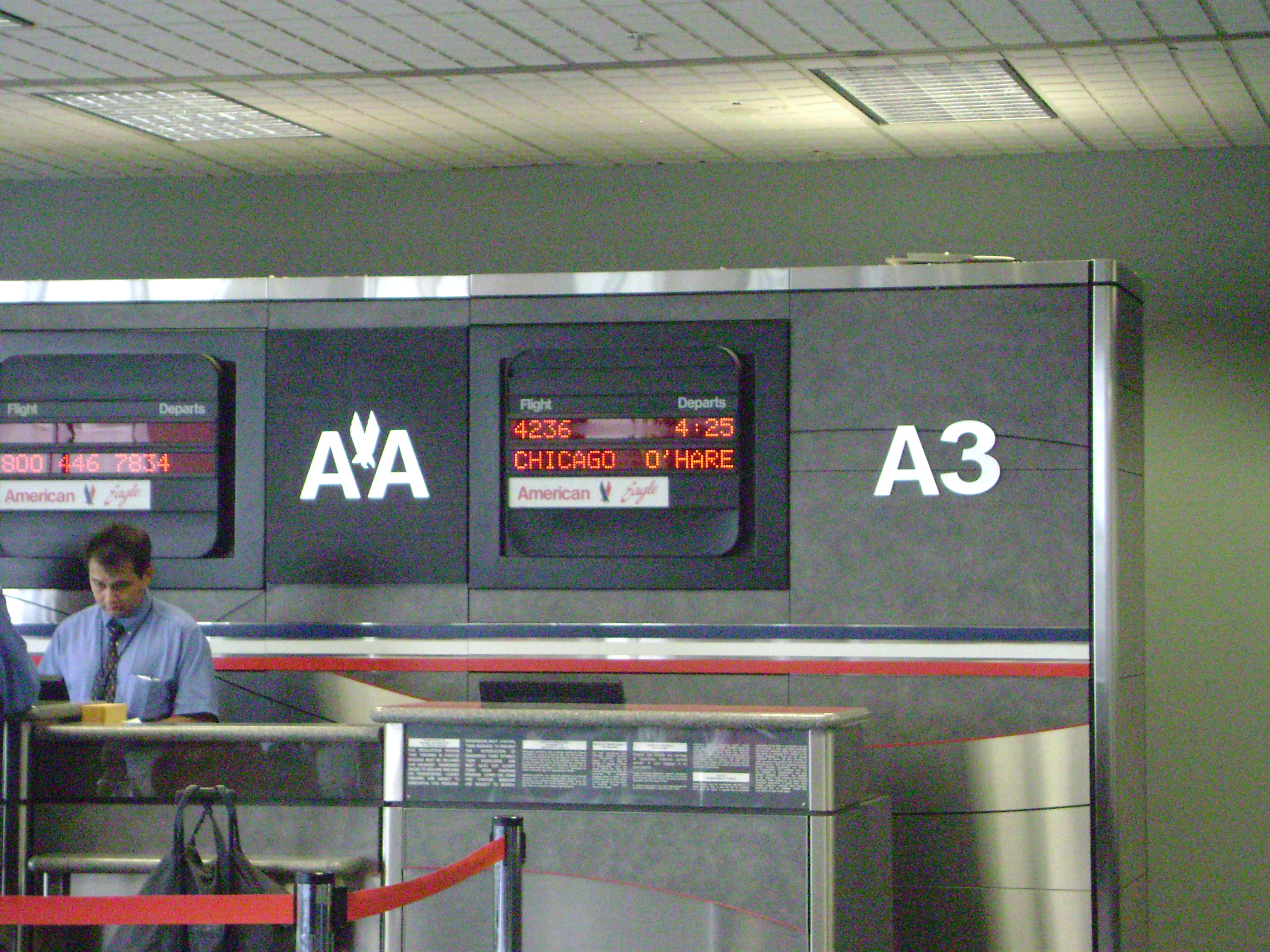 American Airlines counter at Cleveland Hopkins International Airport